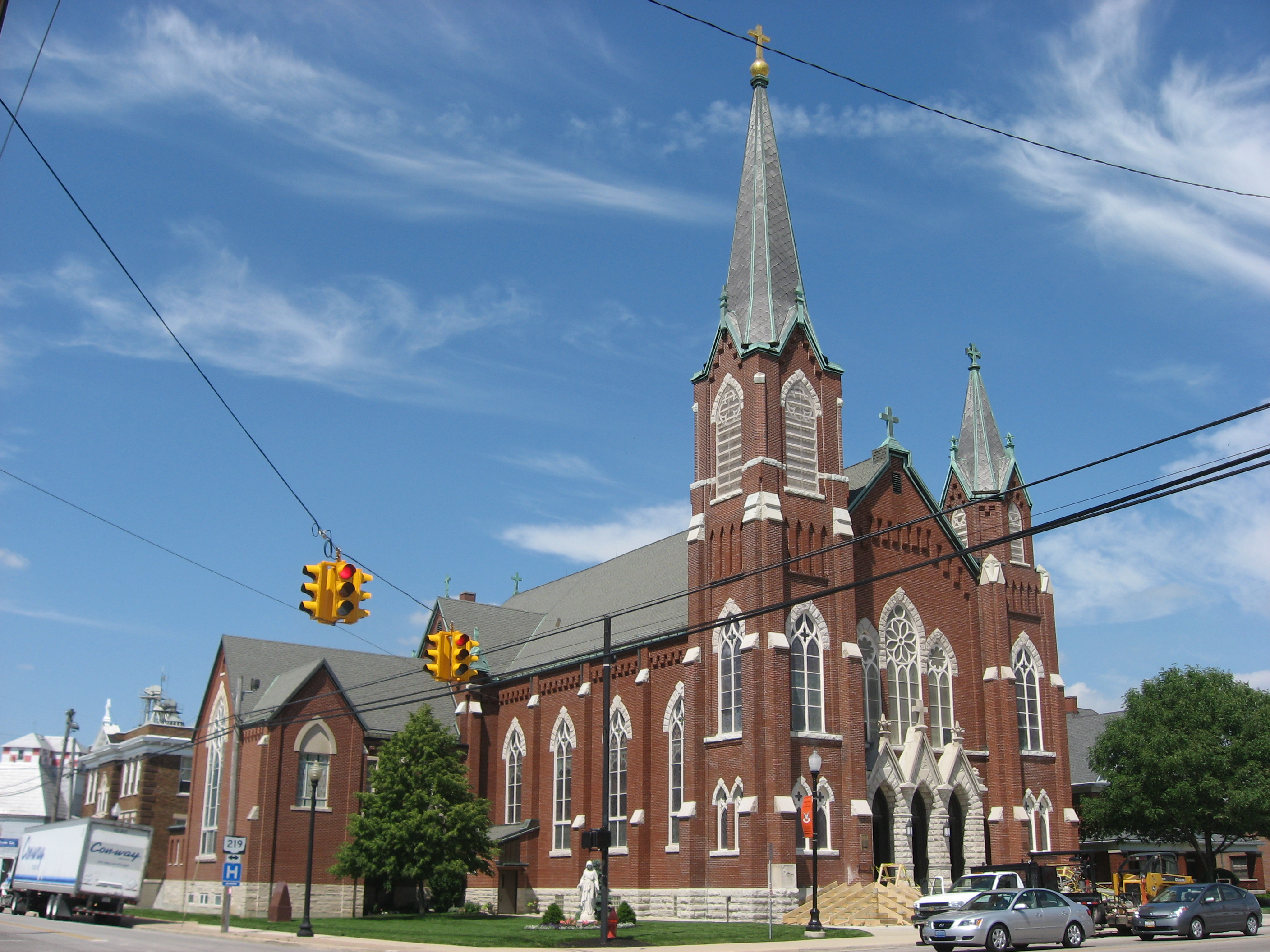 Front and western side of Holy Trinity Catholic Church, located at the intersection of Second (State Route 118) and Main (State Route 219) at the center of Coldwater, Ohio, United States. Built in 1899, the church, its school, and the parish rectory were listed together on the National Register of Historic Places as a part of the Cross-Tipped Churches of Ohio Thematic Resources.